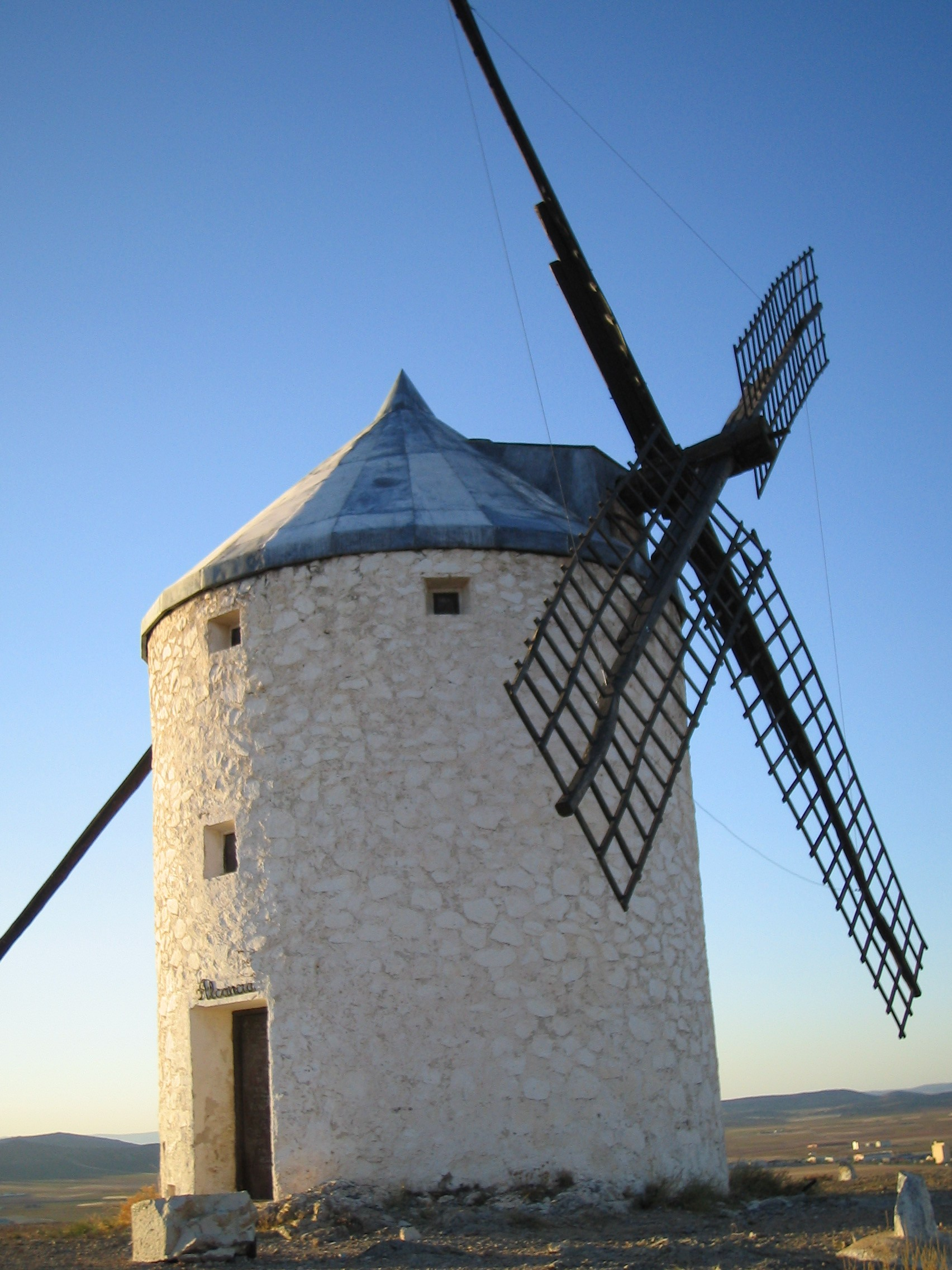 towermill "Alcancía" at Consuegra, Castilla-La Mancha